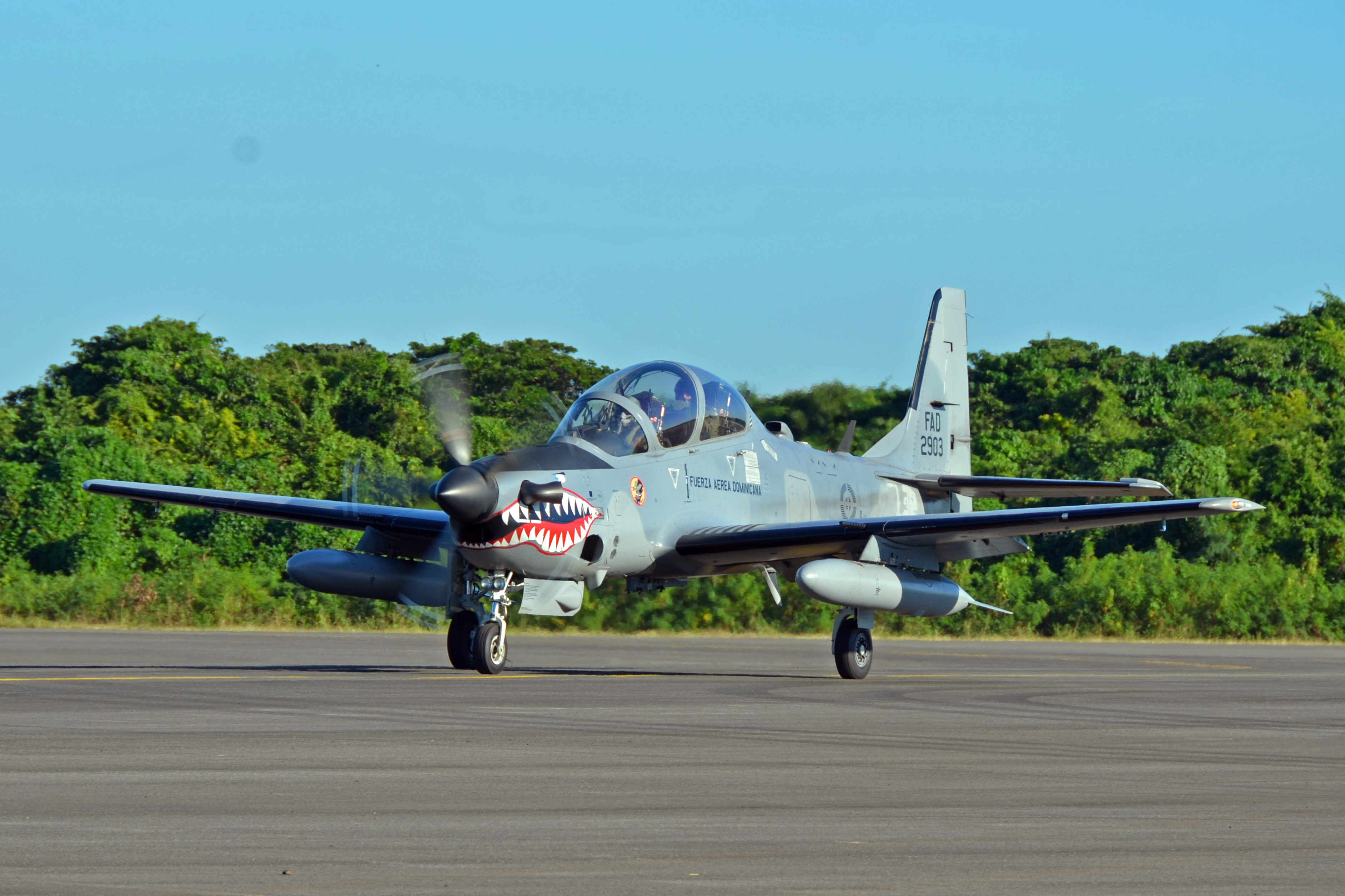 A Dominican Republic air force A-29 Super Tucano pilot taxis after a mission as part of an exercise to combat illegal drug trafficking Dec. 3, 2013, over the skies of the Caribbean. The exercise is part of the Sovereign Skies Program, an initiative between the U.S., Colombian, and Dominican Republic air forces to share best-practices on procedures to detect, track and intercept illegal drugs moving north from South America. (U.S. Air Force photo by Capt. Justin Brockhoff/Released)